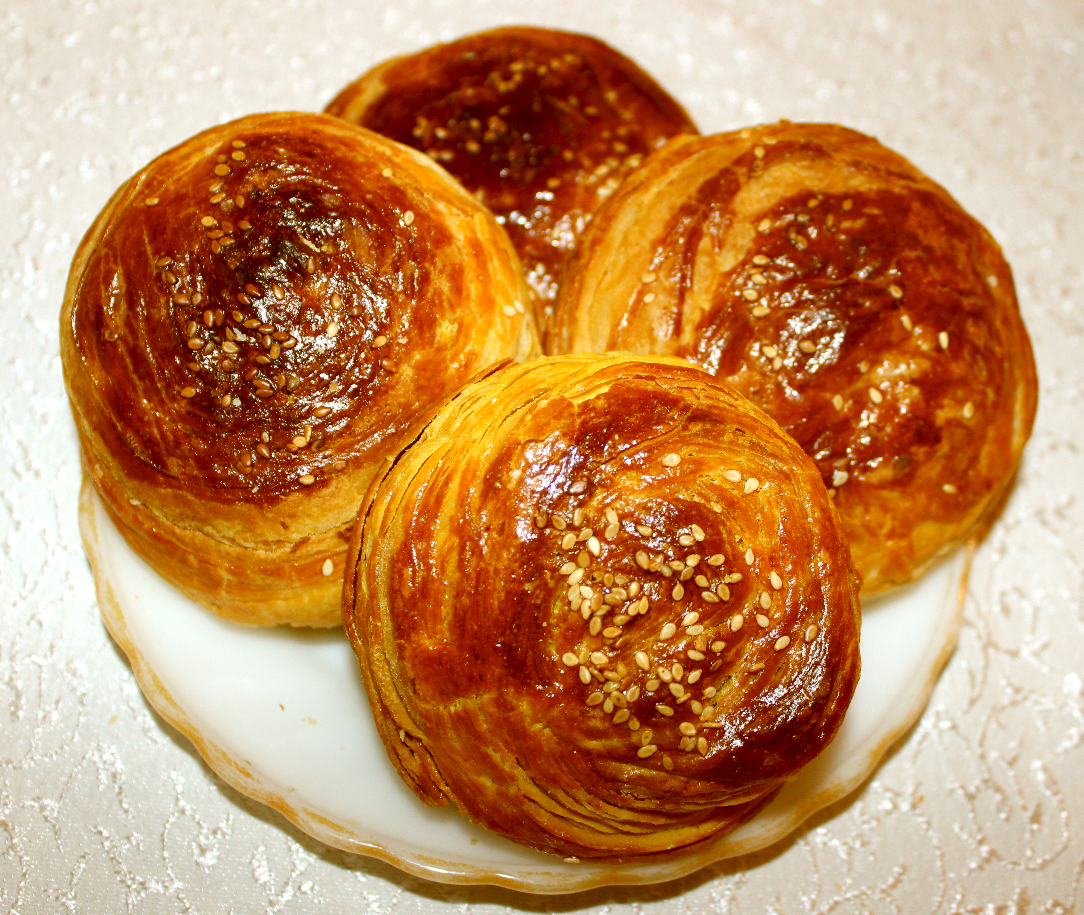 Şorqoğalı